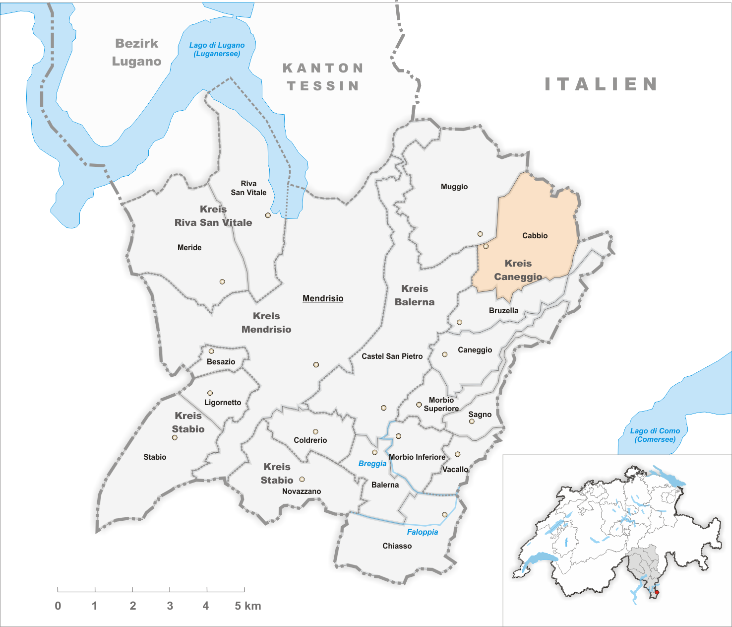 Municipality Cabbio Artist: Tschubby